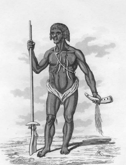 An Ashanti soldier